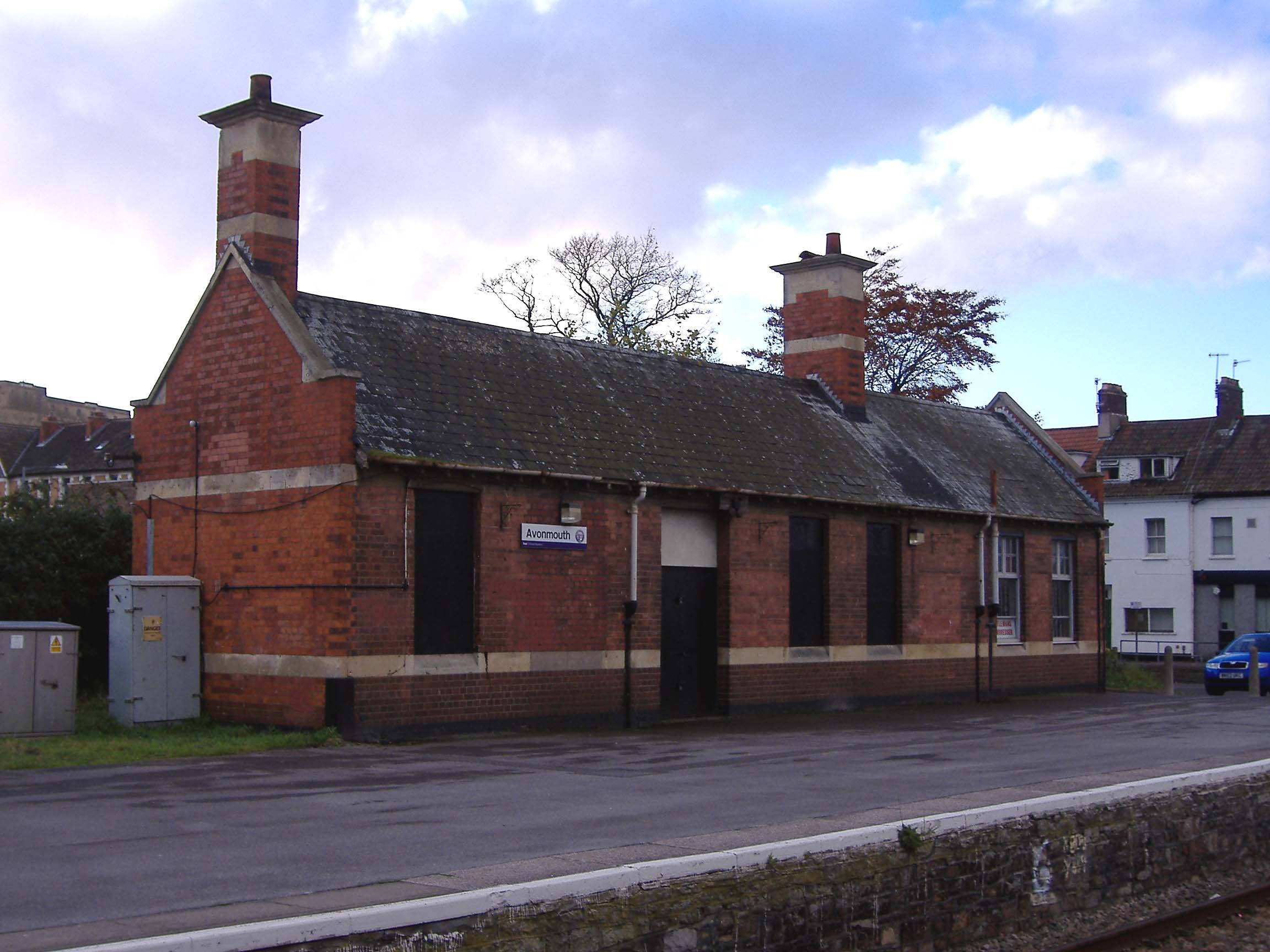 The old (presumably) ticket office at Avonmouth railway station. It's now a gentlemen's hairdressers.